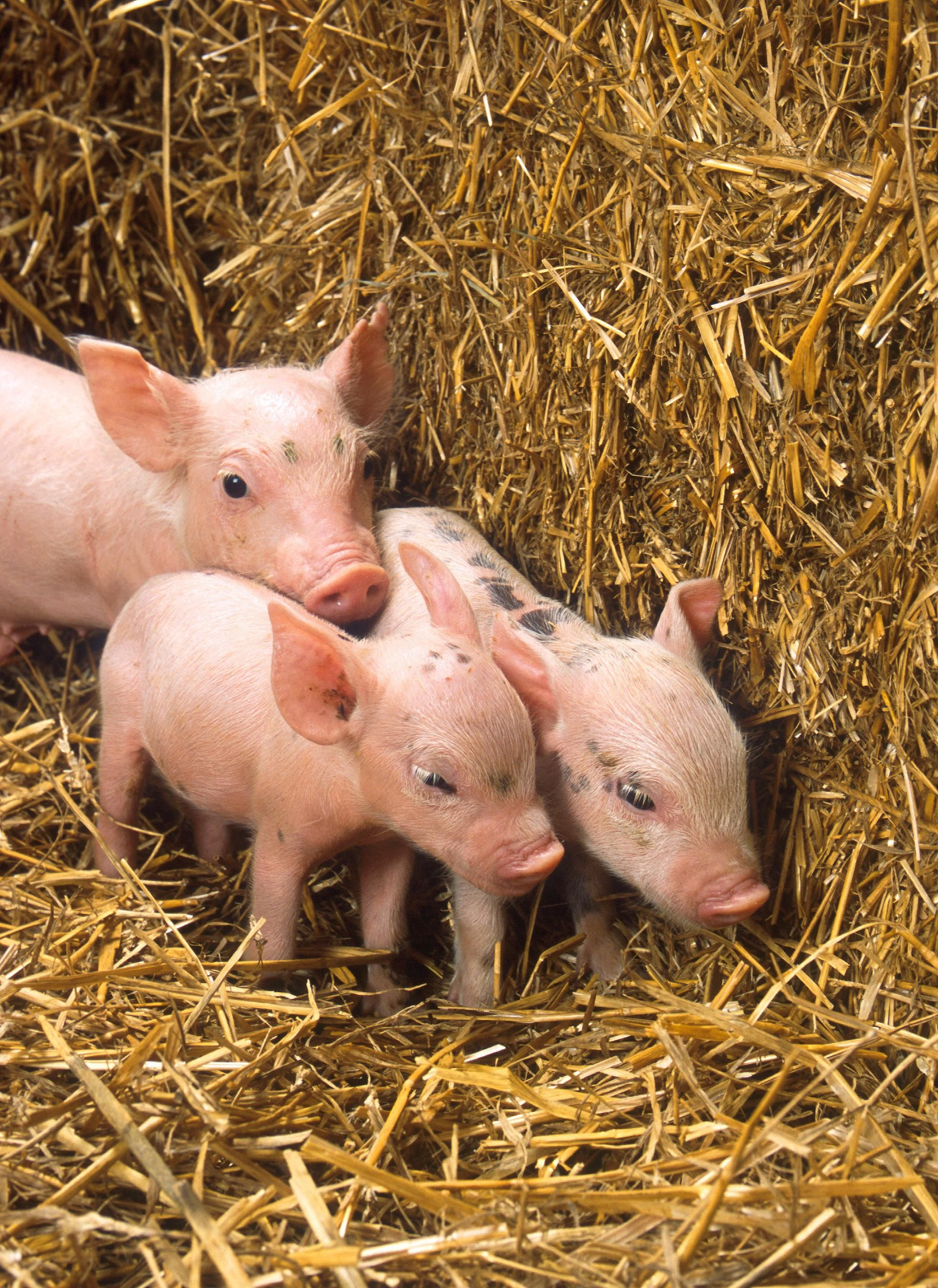 Piglets, baby pigs